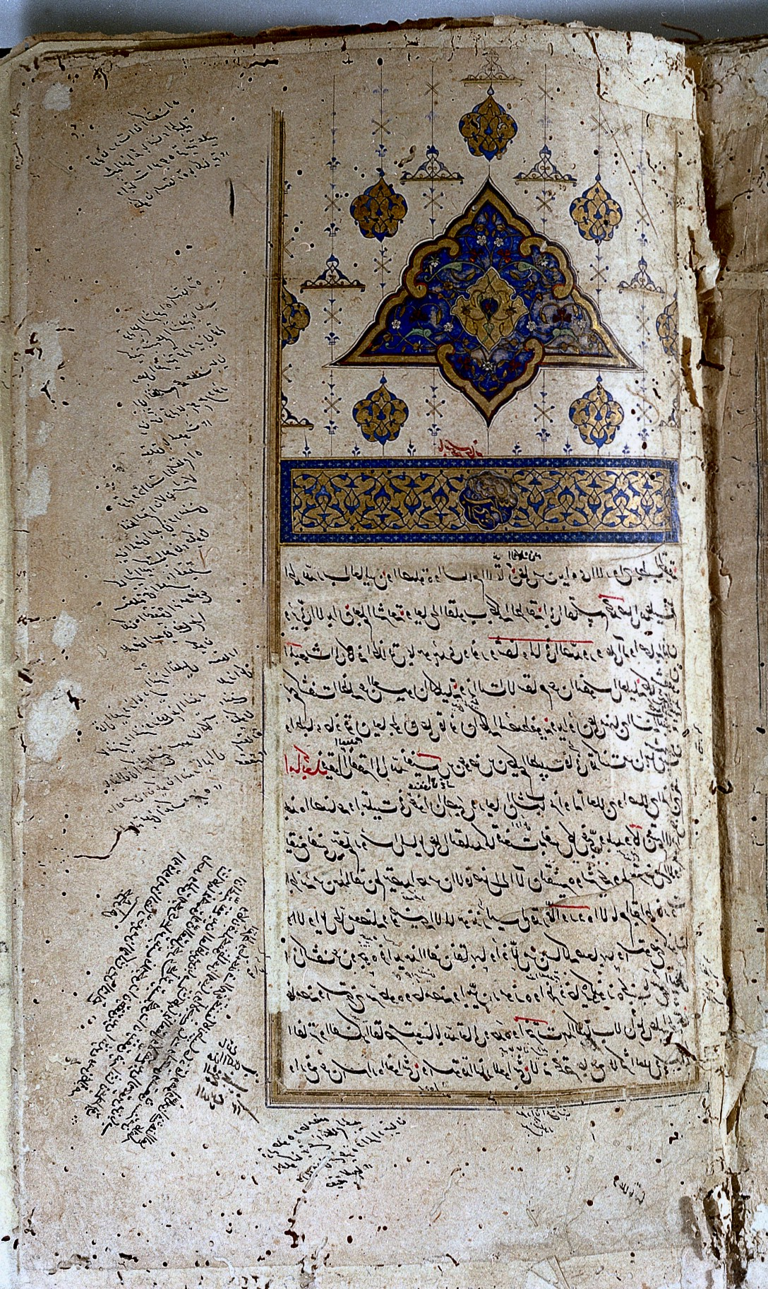 Al-Kirmani, Commentary on 'Causes and symptoms' of as-Samarqandi , Bokhara A.H., 1127/A.D. 1715. Asian Collection Keywords: oriental manuscripts; wellcome or. 87